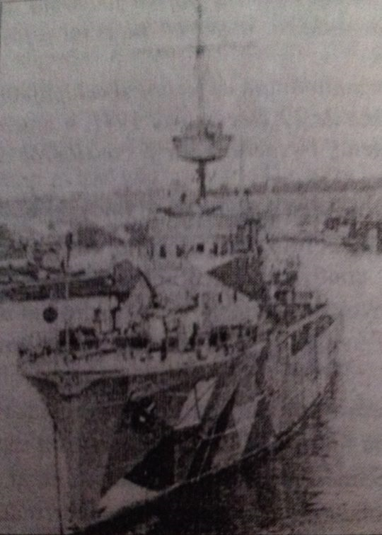 The Romanian minelayer Amiral Murgescu in World War II